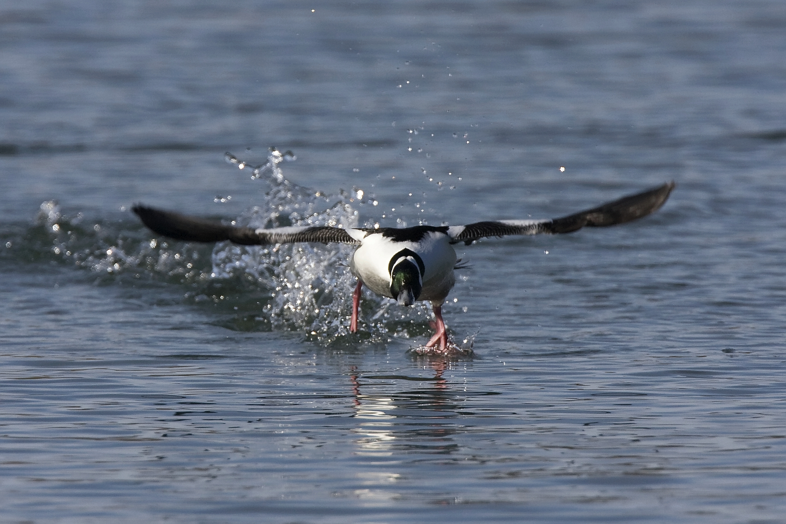 Male Bufflehead in-flight at the Morro Bay State Park Marina, California. Shot with 500/f4+1.4 and 40D.